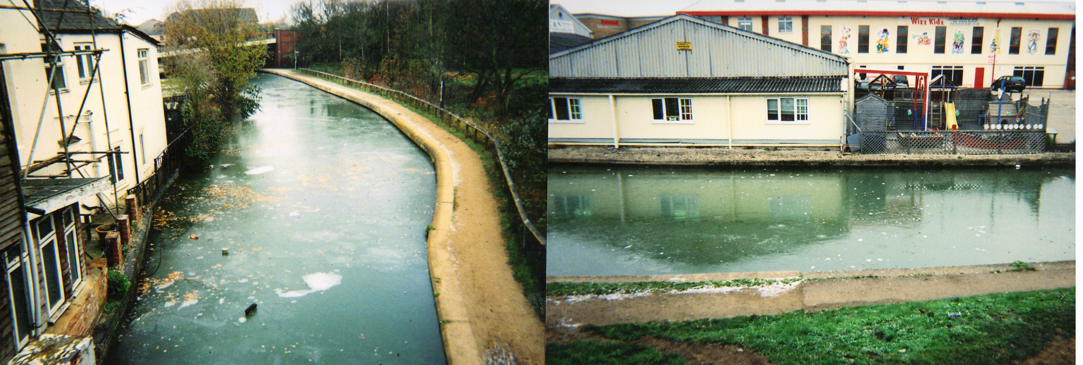 The Oxford Canal, Banbury, Oxfordshire, England, frozen on 30 November 2010.